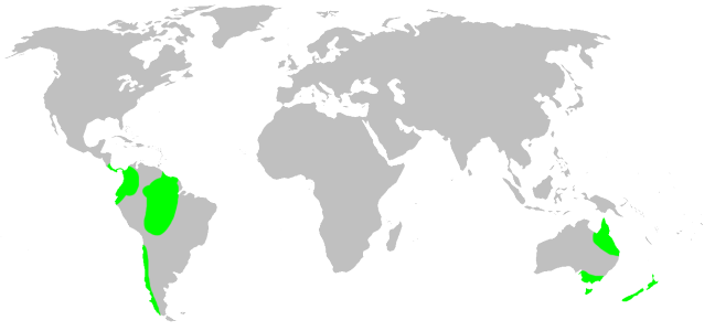 Synotaxidae habitat distribution, drawn after Platnick: World Spider Catalog 7.0. This is not a precise rendering of the distribution! If you have better information, please replace this map, or send me the info, and i will redraw it.